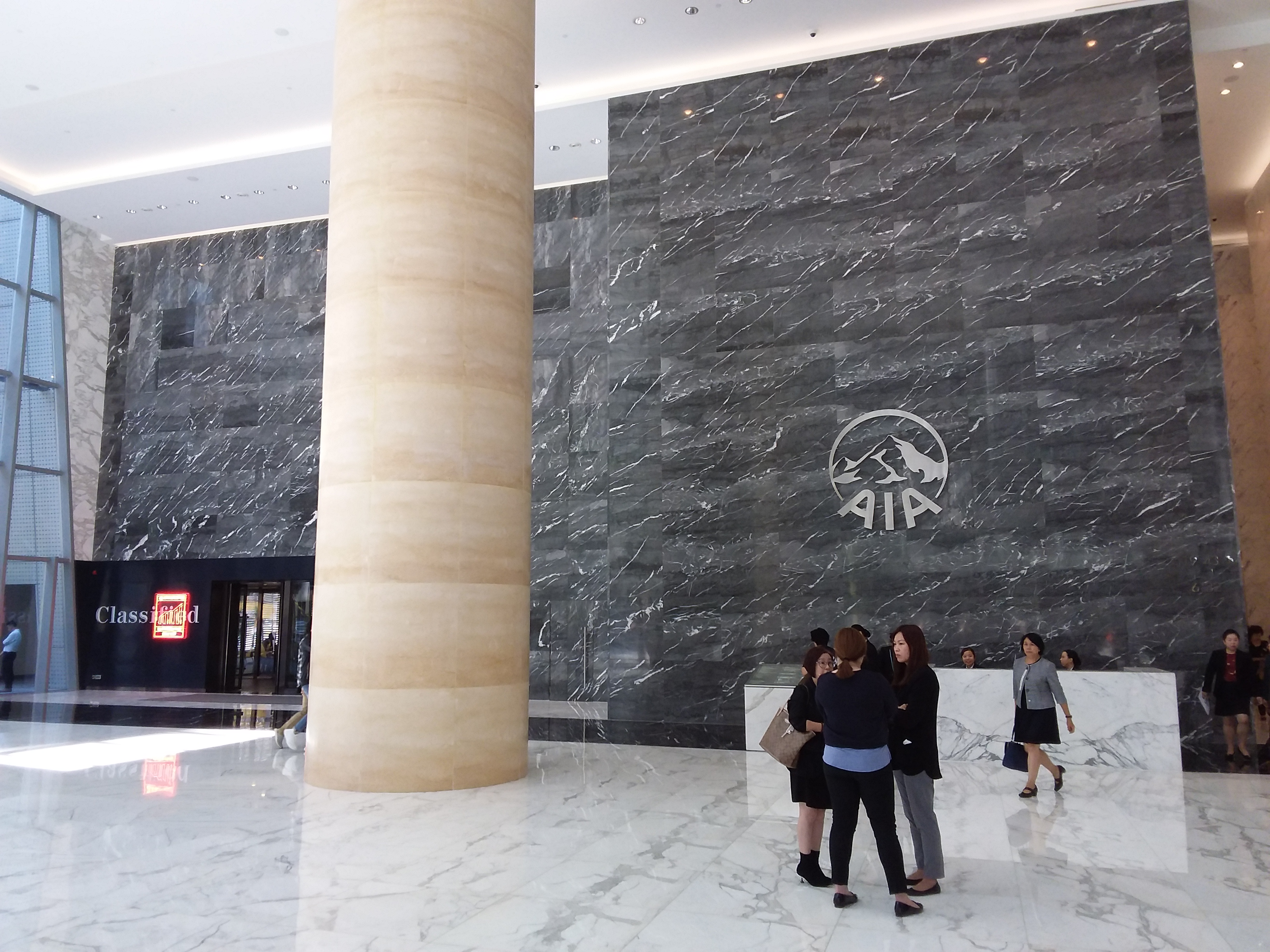 HK 觀塘 Kwun Tong 城東誌 Landmark East 巧明街 How Ming Street 友邦九龍大樓 AIA Kln Tower in November 2018